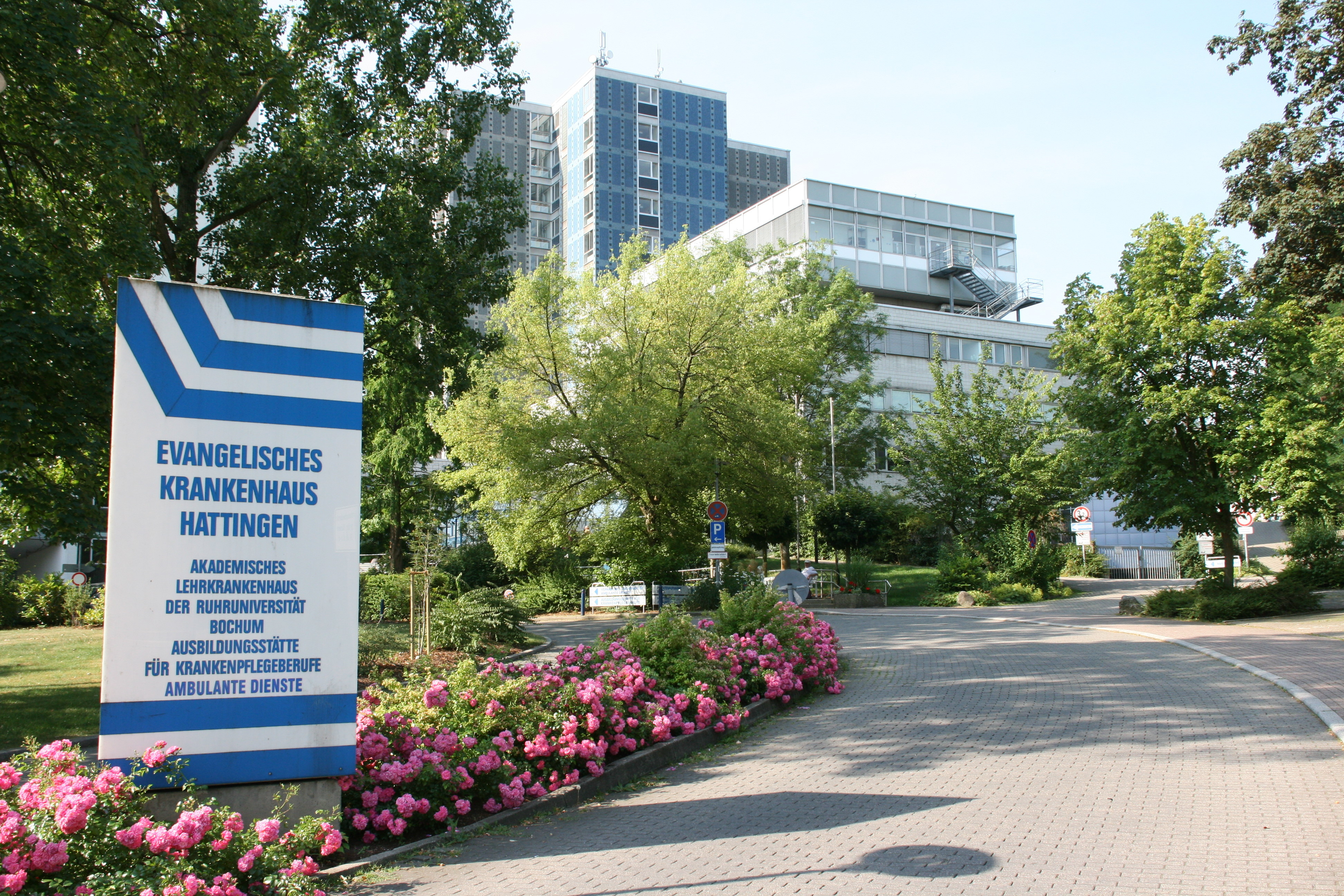 Evangelisches Krankenhaus, Bredenscheider Straße in Hattingen